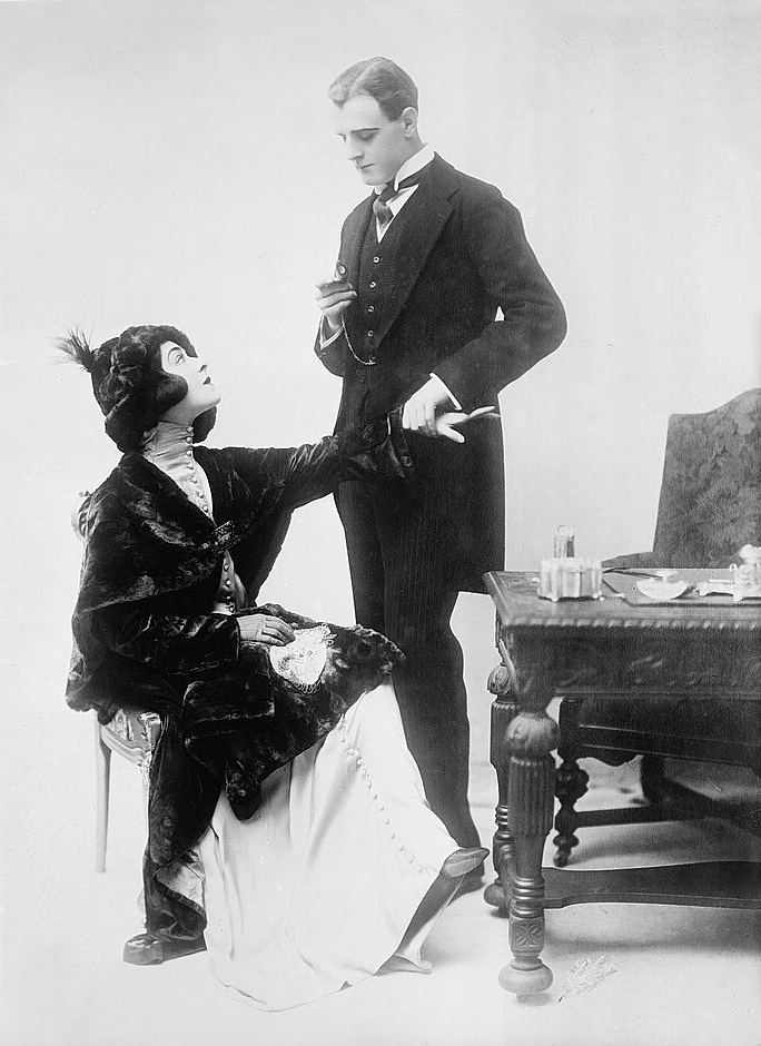 Charles Bryant (actor) Bain News Service, publisher. Alla Nazimova and Charles Bryant (actor), 12/6/12 12/06/1912. 1 negative : glass ; 5 x 7 in. or smaller. Notes: Title from unverified data provided by the Bain News Service on the negatives or caption cards. Forms part of: George Grantham Bain Collection (Library of Congress). Format: Glass negatives. Repository: Library of Congress, Prints and Photographs Division, Washington, D.C. 20540 USA, General information about the Bain Collection is available at Persistent URL: Call Number: LC-B2- 2463-5